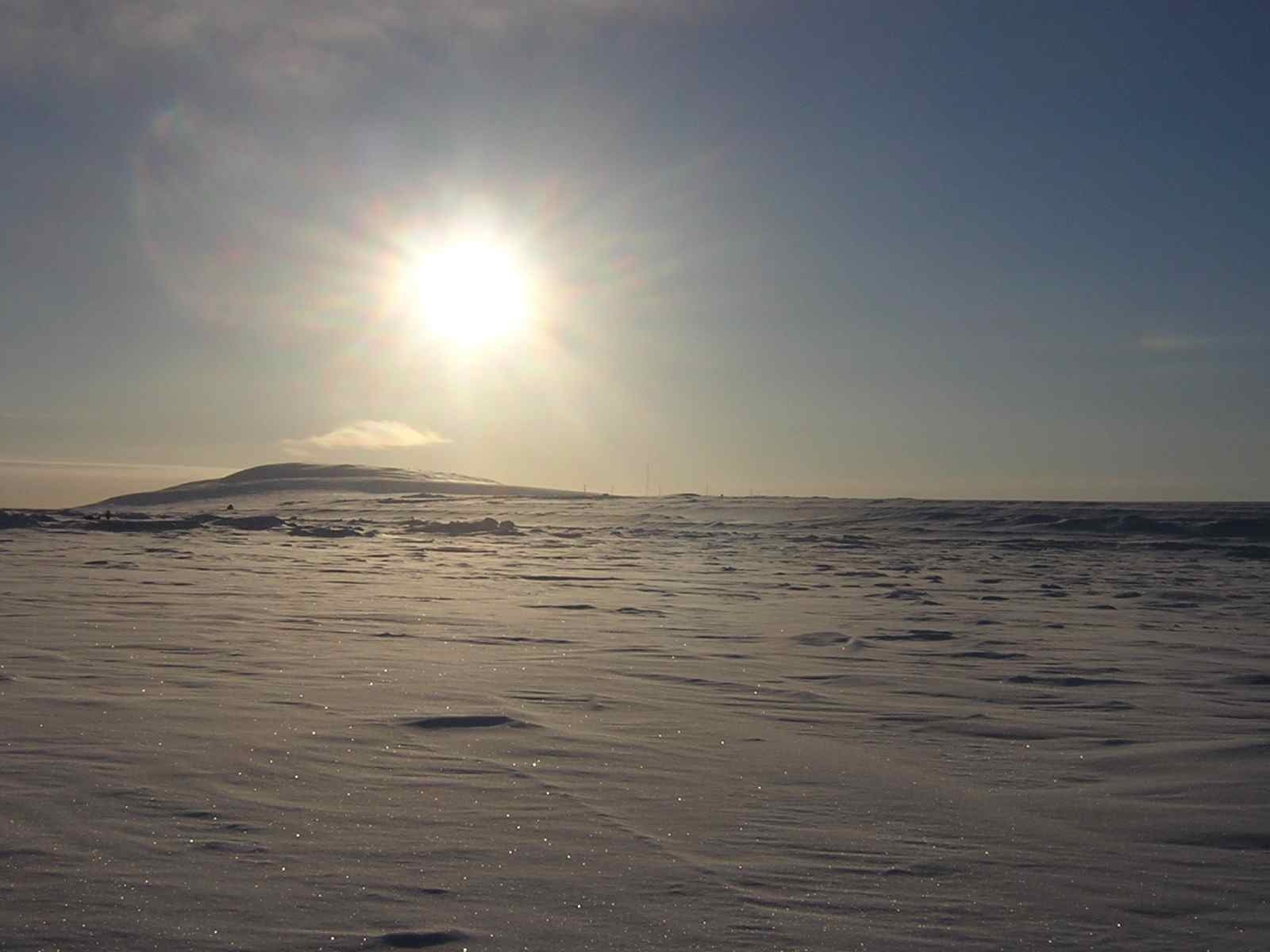 Sun on the ice, near Resolute Bay, Nunavut, April 2004